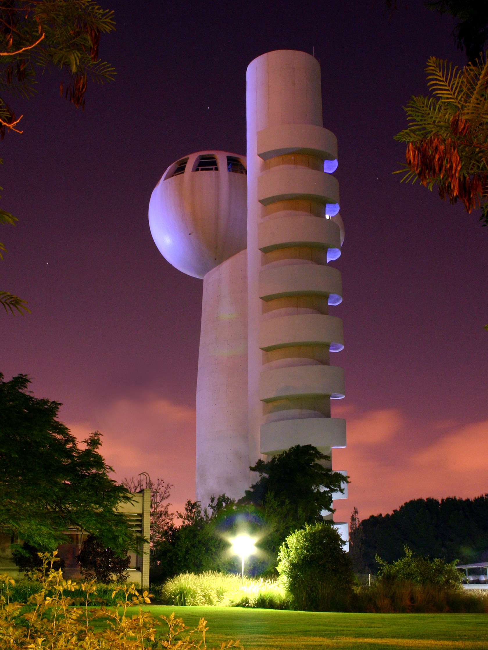 The particle accelerator at the Weizmann Institute of Science